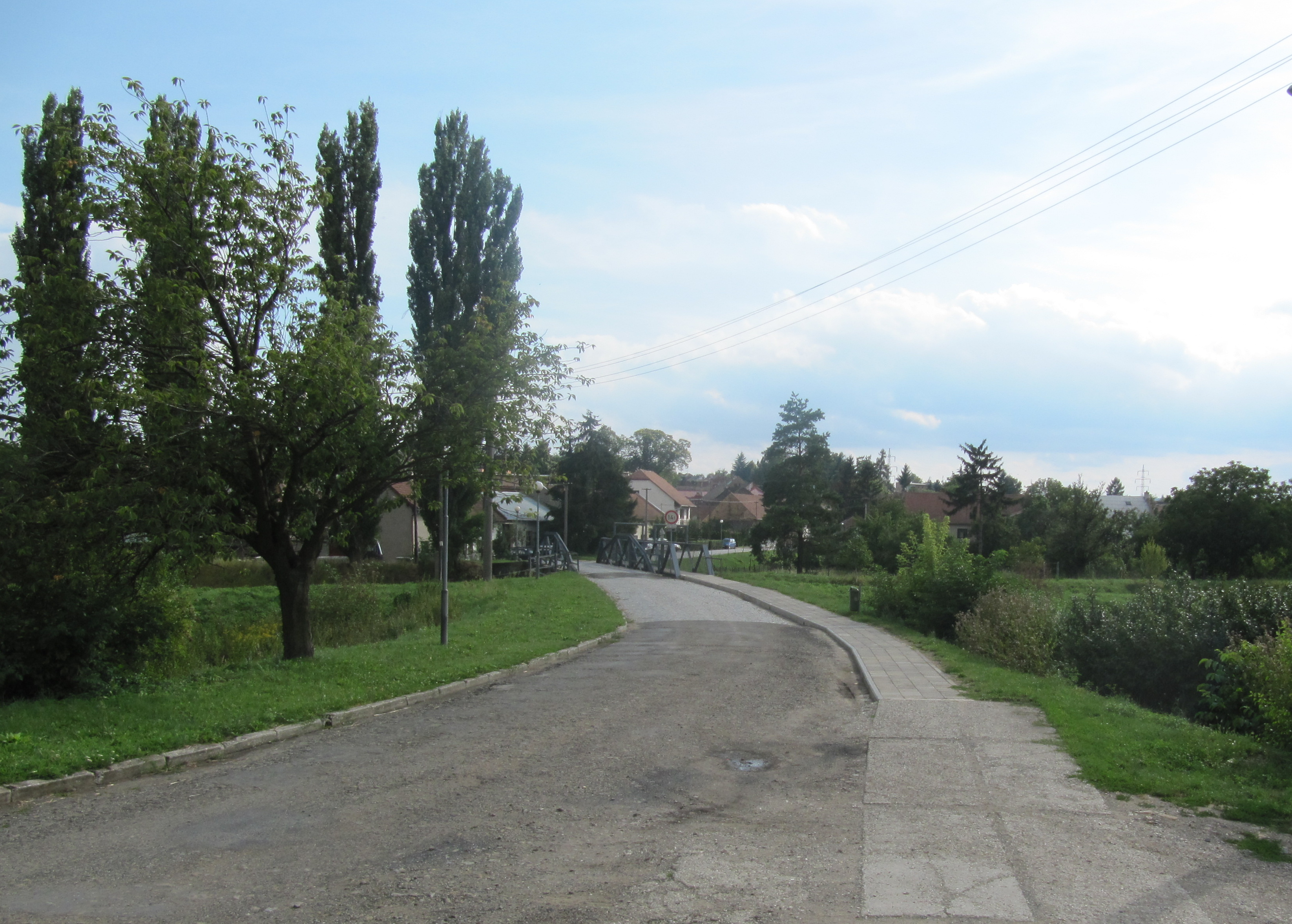 Bezměrov, Kroměříž District, Czech Republic.